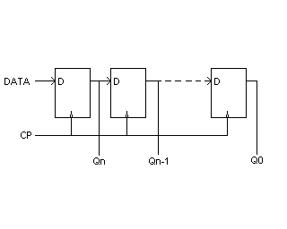 shift register using D-flip/flops